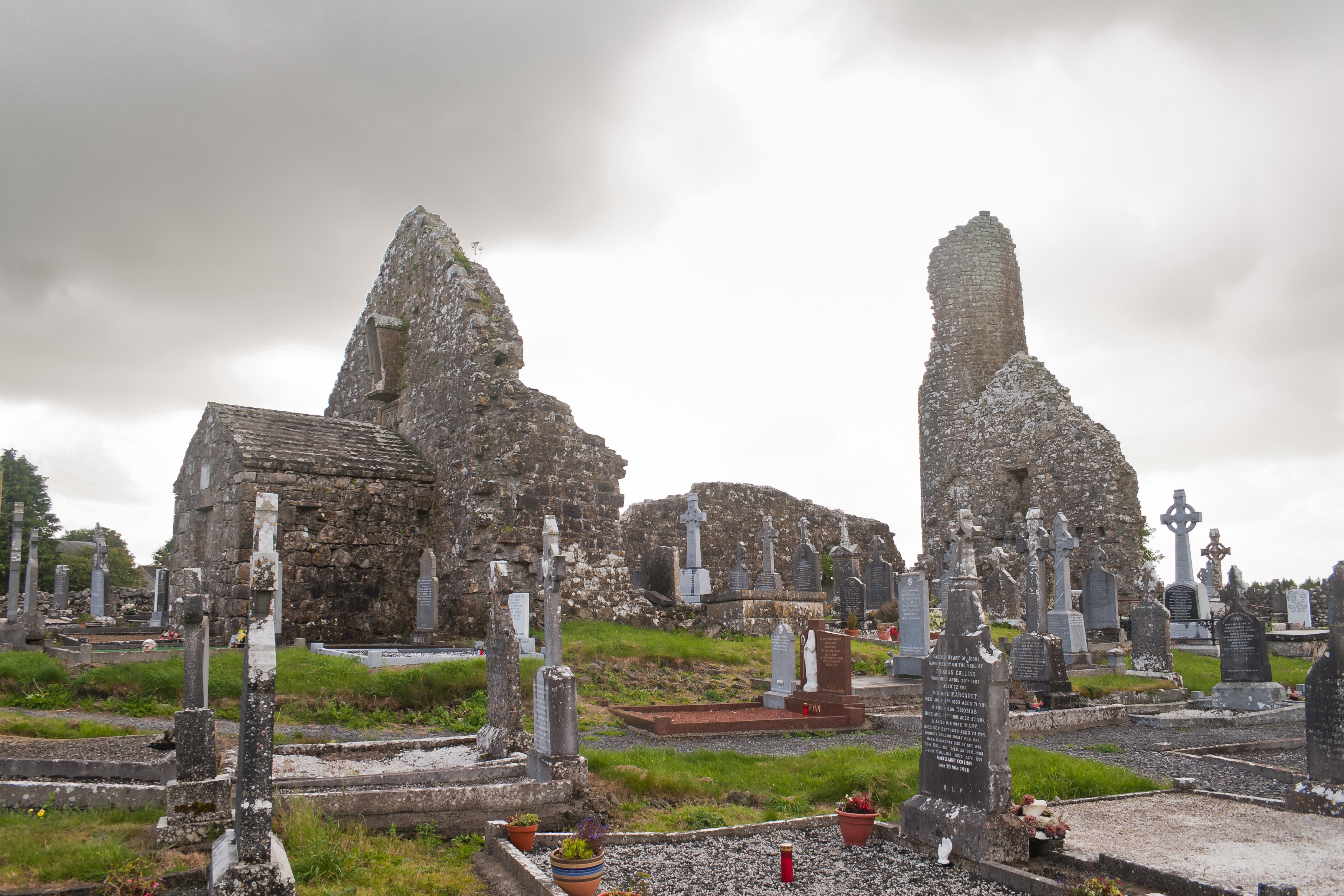 North-east view of Kilbennan Church and round tower.